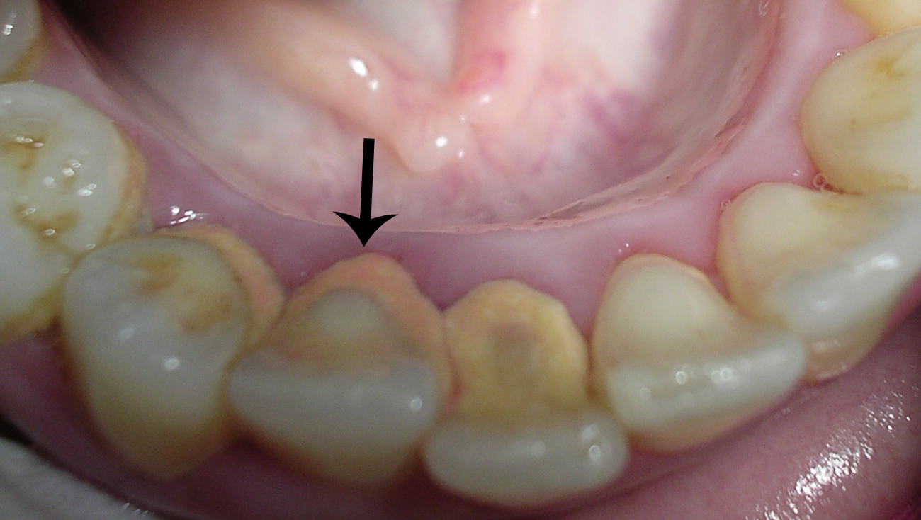 Photo taken of patient, who will remain anonymous, treated at the University of Tennessee Health Science Center: College of Dentistry in Memphis, Tennessee. Image shows the mandibular teeth after one side of the mouth was cleaned by scaling and root planing and allowed to heal for a few weeks. Calculus is visible on the patient's right side, which had yet to receive treatment. Source: Photo taken by Dozenist